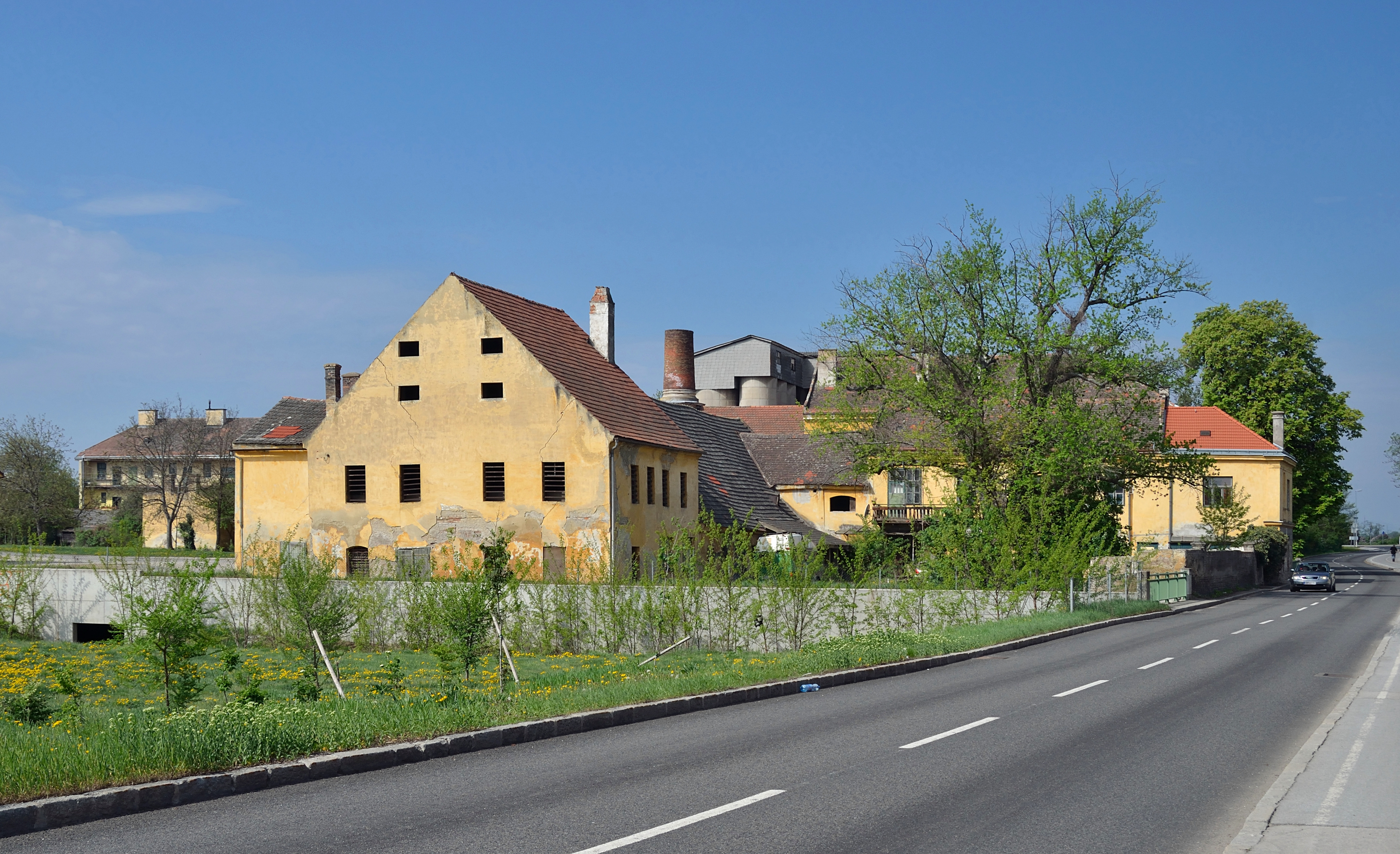 Gut Aichhof-Antonshof, a former mill, at Rannersdorf, Schwechat, Lower Austria.